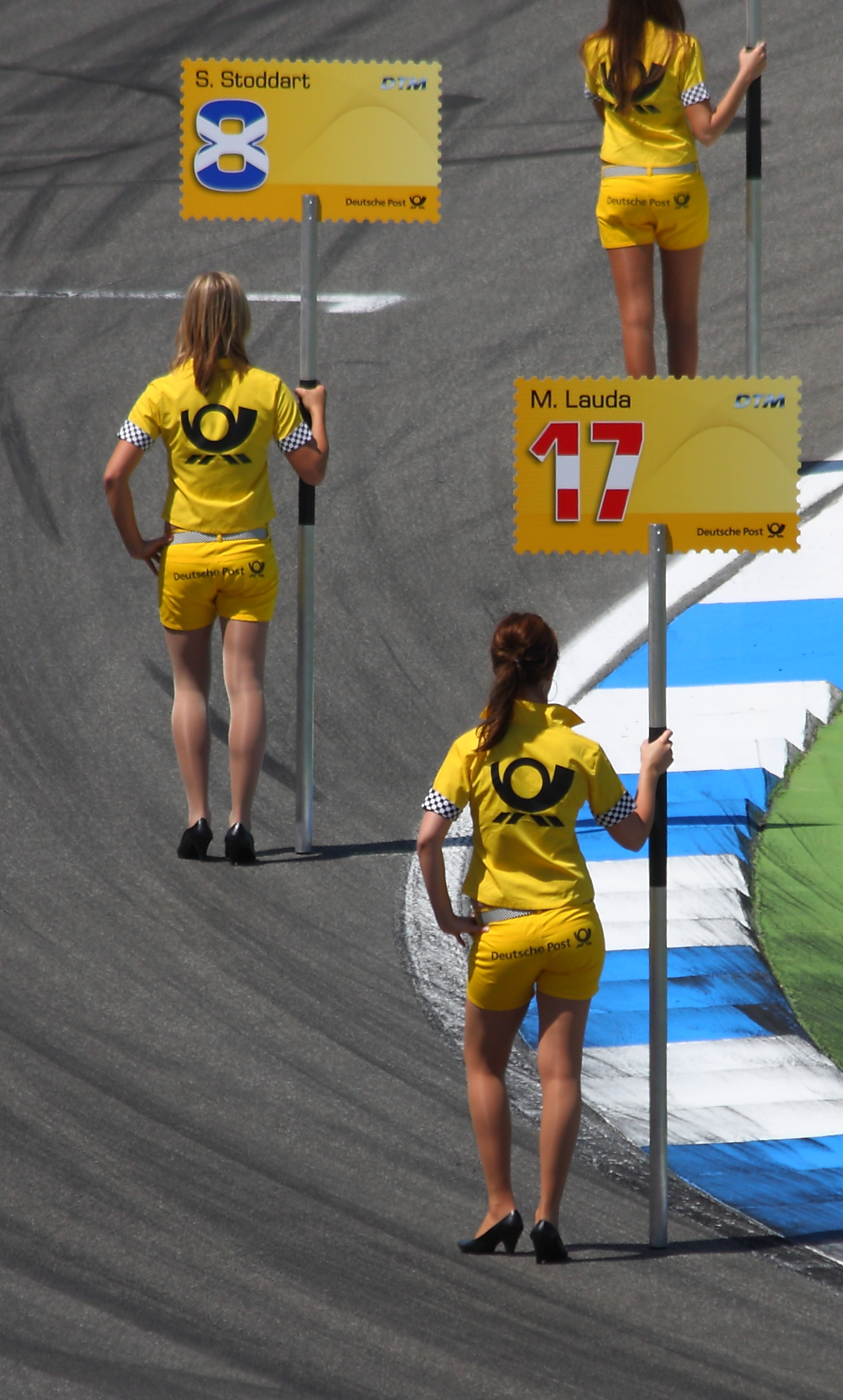 DTM grid girls